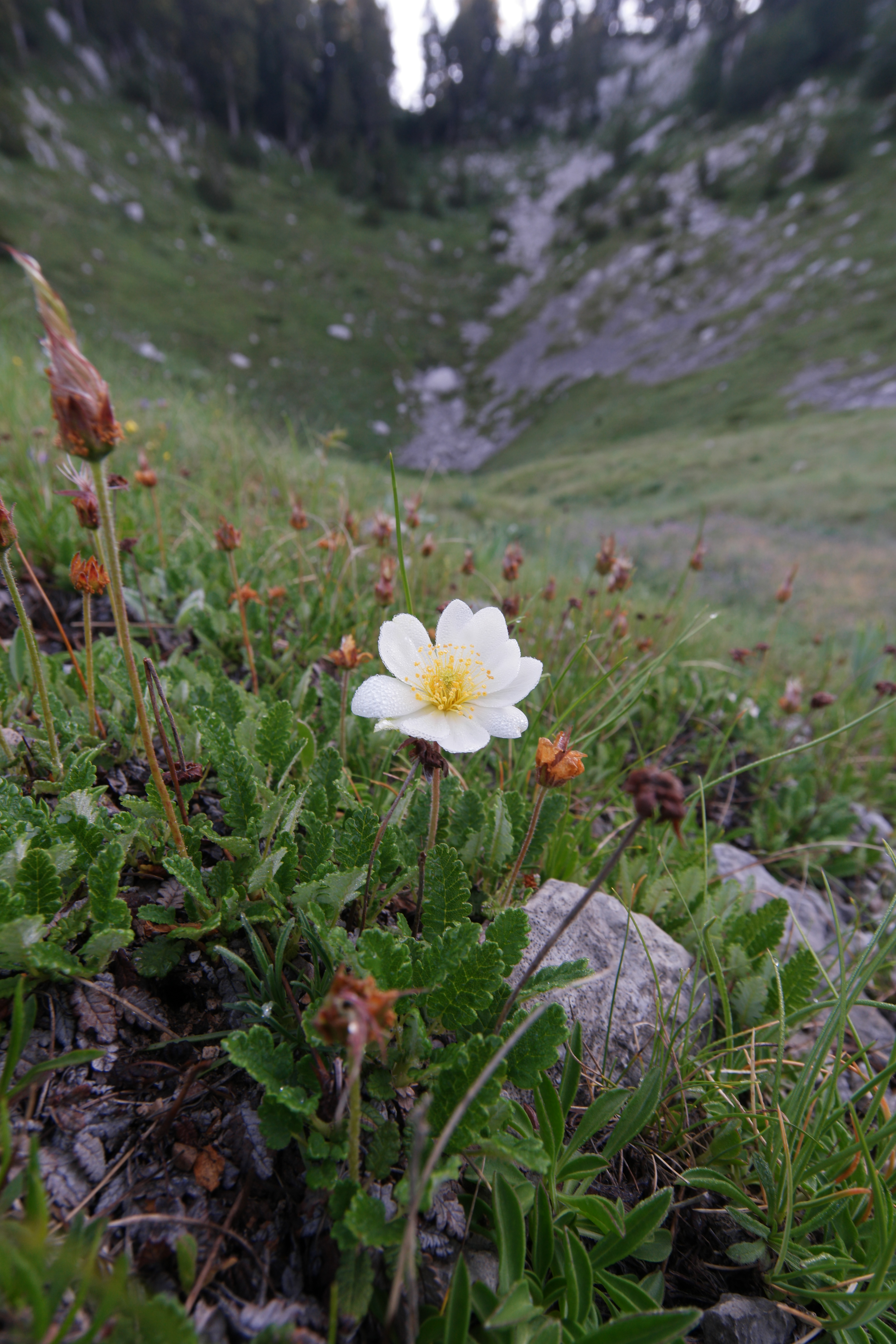 Recently discovered Dryas octopetala population in relict situation. Leg P.Cikovac